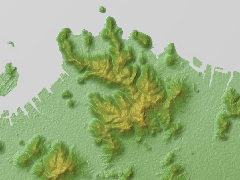 Goshikidai in Kagawa Prefecture, Shikoku, Japan.